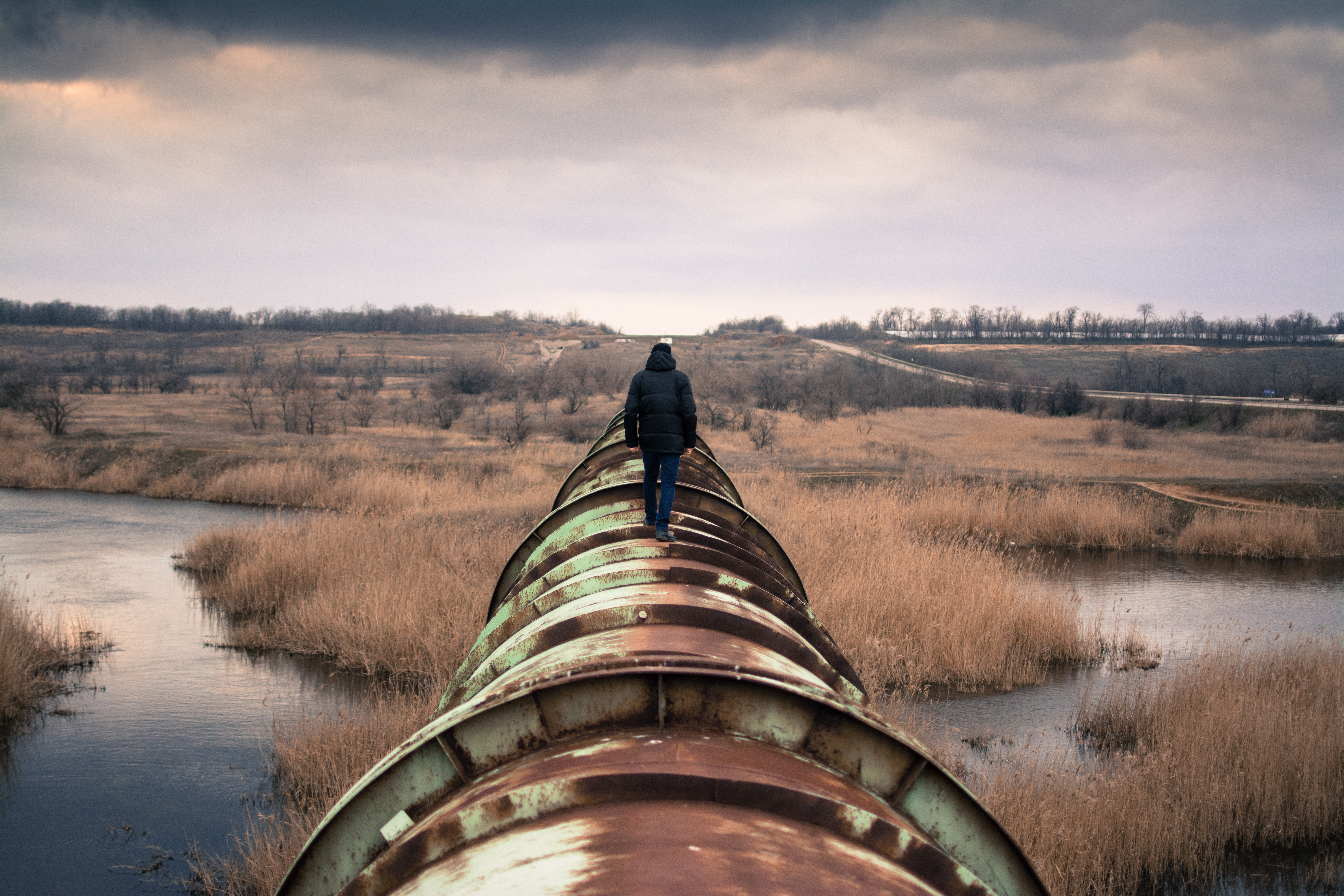 Rodion Kutsaev 2015-04-09